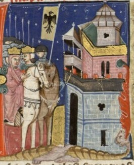 Miniature: Guy de Lusignan before Tyre